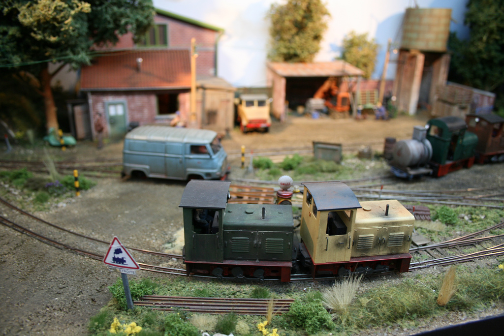 Layout by Escadrille St Michel. Mostly 14mm gauge, the front track is 14mm/18mm gauge representing a 750mm line.